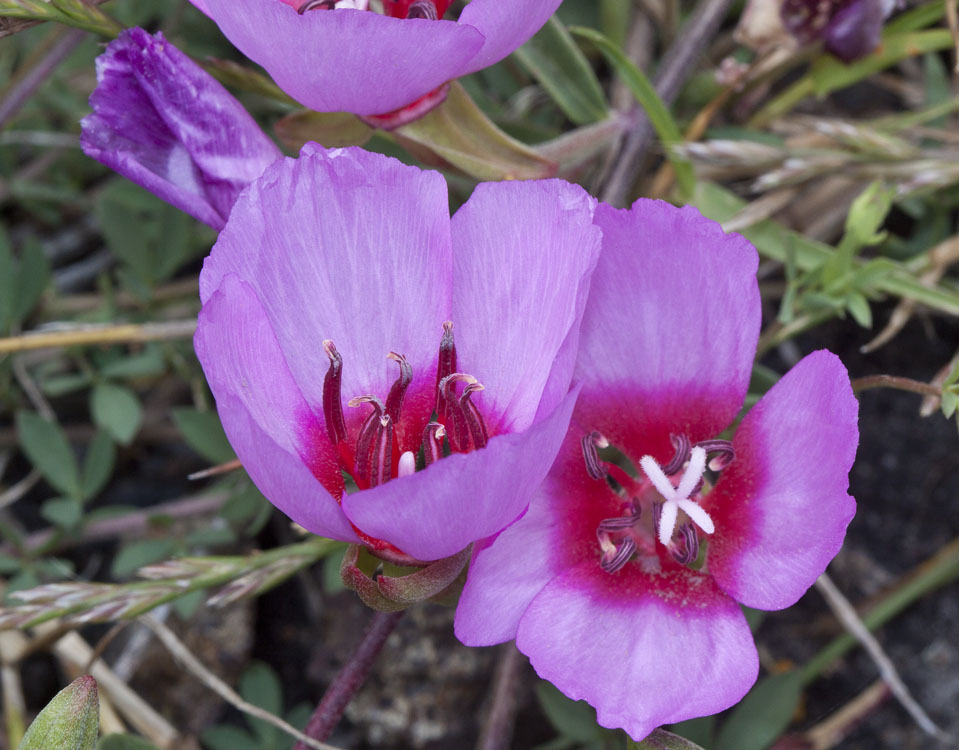 Near Arroyo de la Cruz, northern San Luis Obispo Co., CA. This is the very southern end of the range of this plant.